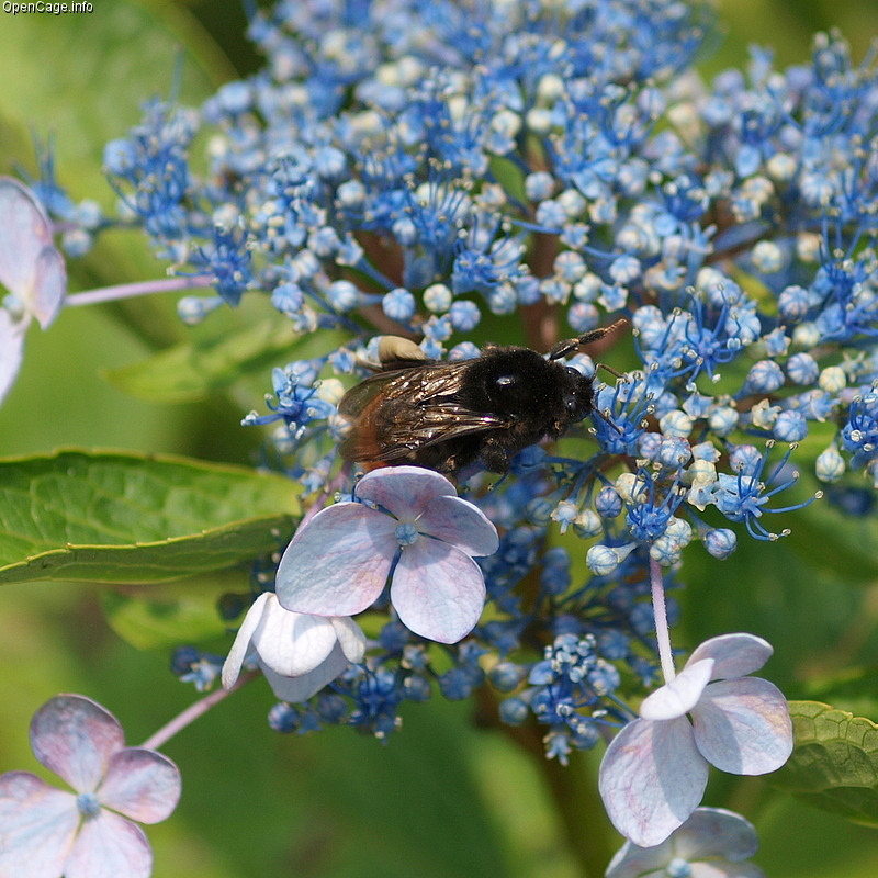 Bombus ignitus on blue flower